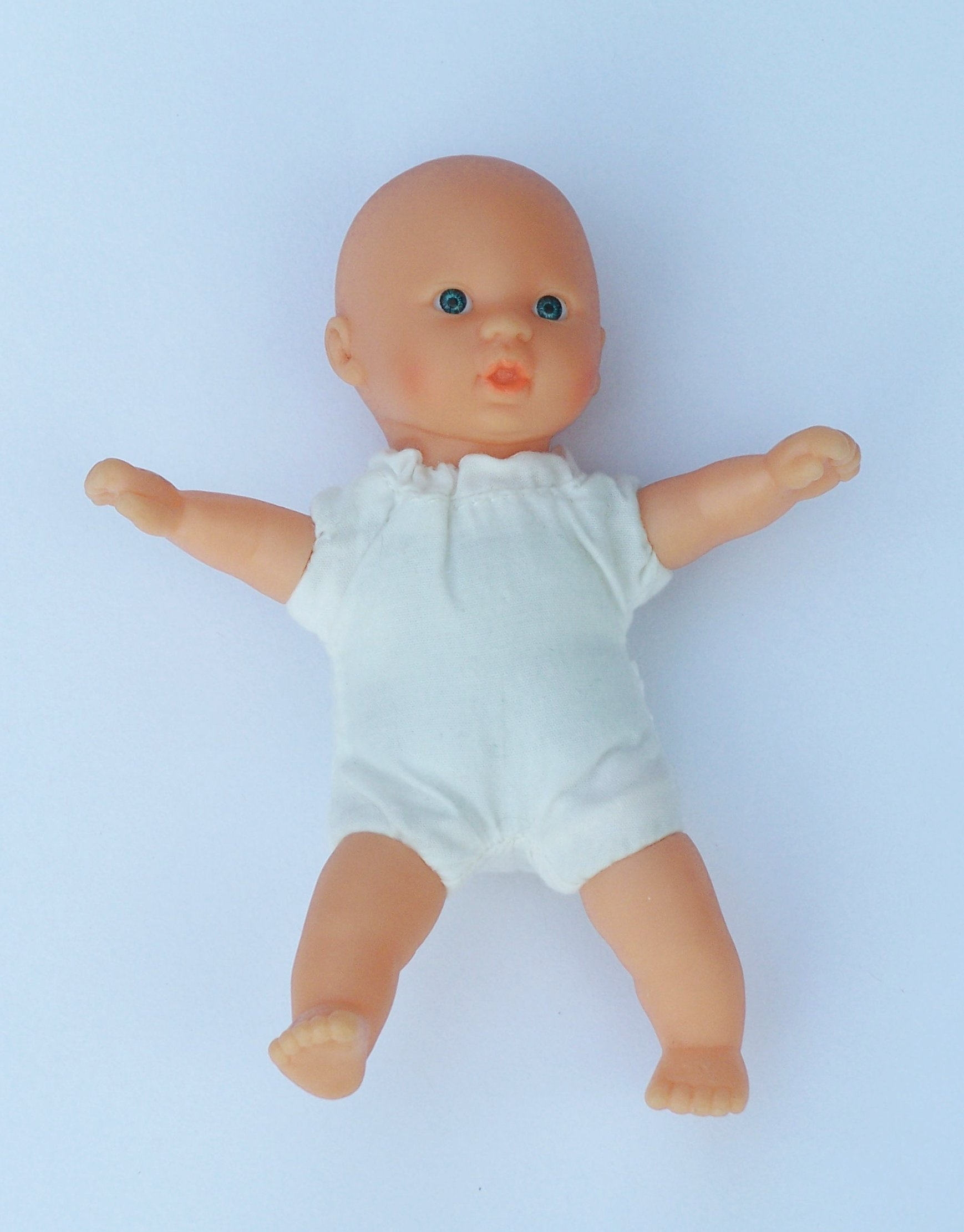 A small (14cm) baby doll called Calineczka. Toy producer: Simba Toys